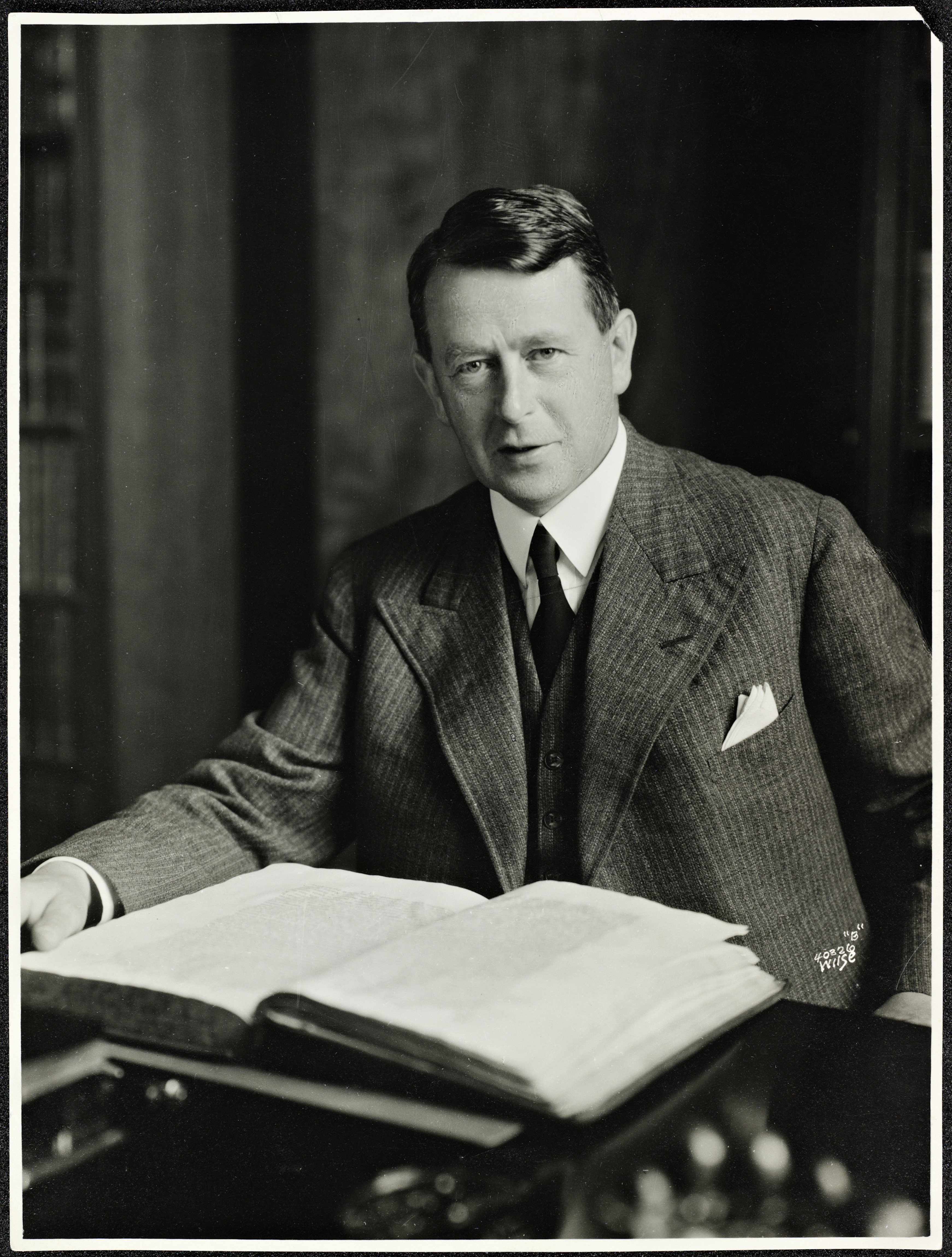 Beskrivelse / Description: Beskrivelse / Description: Wilhelm Munthe var bibliotekar. Munthe begynte ved Universitetsbiblioteket i 1903. Fra 1910 ble han amanuensis ved Universitetsbiblioteket i Oslo, fra 1922-1953 overbibliotekar. Fra 1947-1951 var han president for IFLA (International Federation of Library Associations). Dato / Date: 1933 Sted / Place: Oslo, Solli Plass, Henrik Ibsens gate 110, Nasjonalbiblioteket Fotograf / Photographer: Anders Beer Wilse (1865-1949) Digital kopi av original / Digital copy of original: s/h papirpositiv Eier / Owner Institution: Nasjonalbiblioteket / National Library of Norway Lenke / Link: Bildesignatur / Image Number: blds_01685